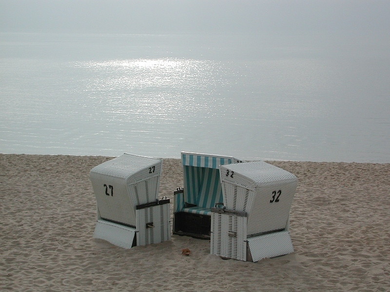 Beach chairs, Sylt, Germany